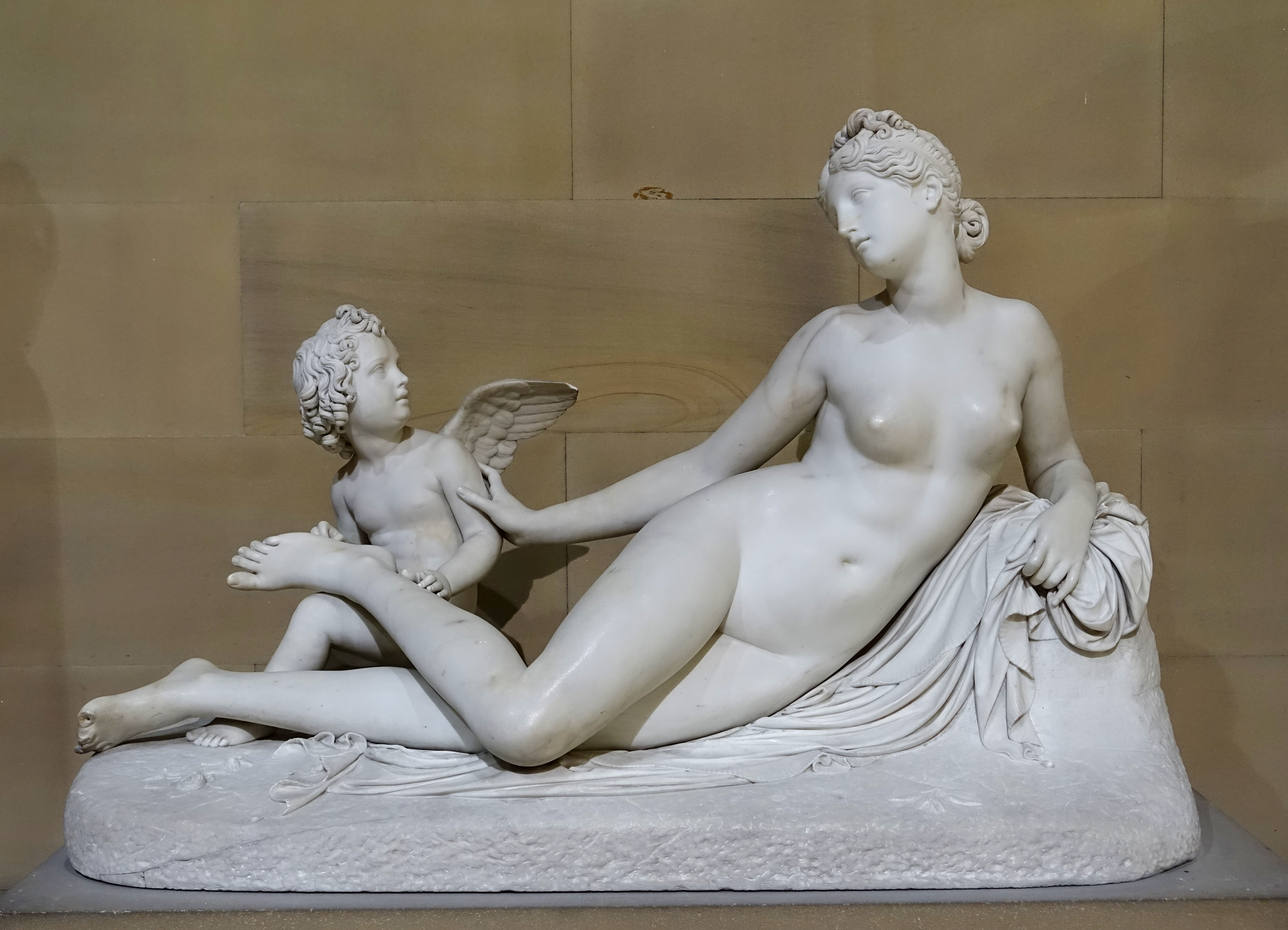 Sculpture in the Sculpture Gallery, Chatsworth House - Derbyshire, England.